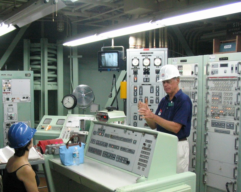 A guide (right) conducts a tour of the Control Room at the Titan Missile Museum in Tucson, AZ. August 2005.